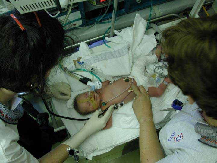 Picture created by self.